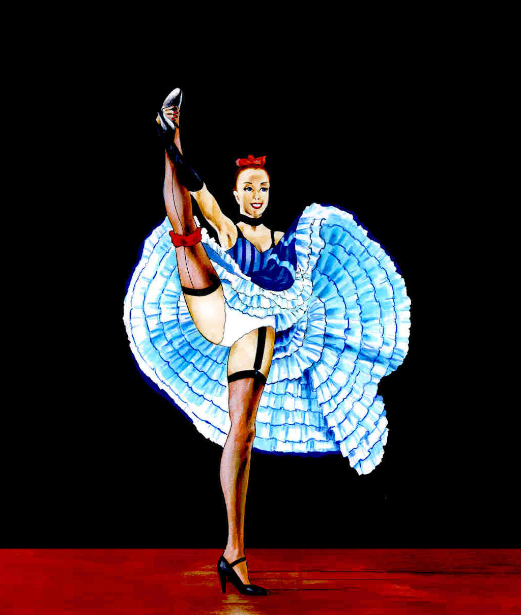 Illustration of a cancan dancer holding her right leg in the air, a step commonly known as "pied en l'air". The performer wears a modern costume, including a full circle skirt with black gloves, layered petticoats, white petite culottes, suspender stockings and high heels. Red garter on right leg. Artwork by Erica Lakehurst.